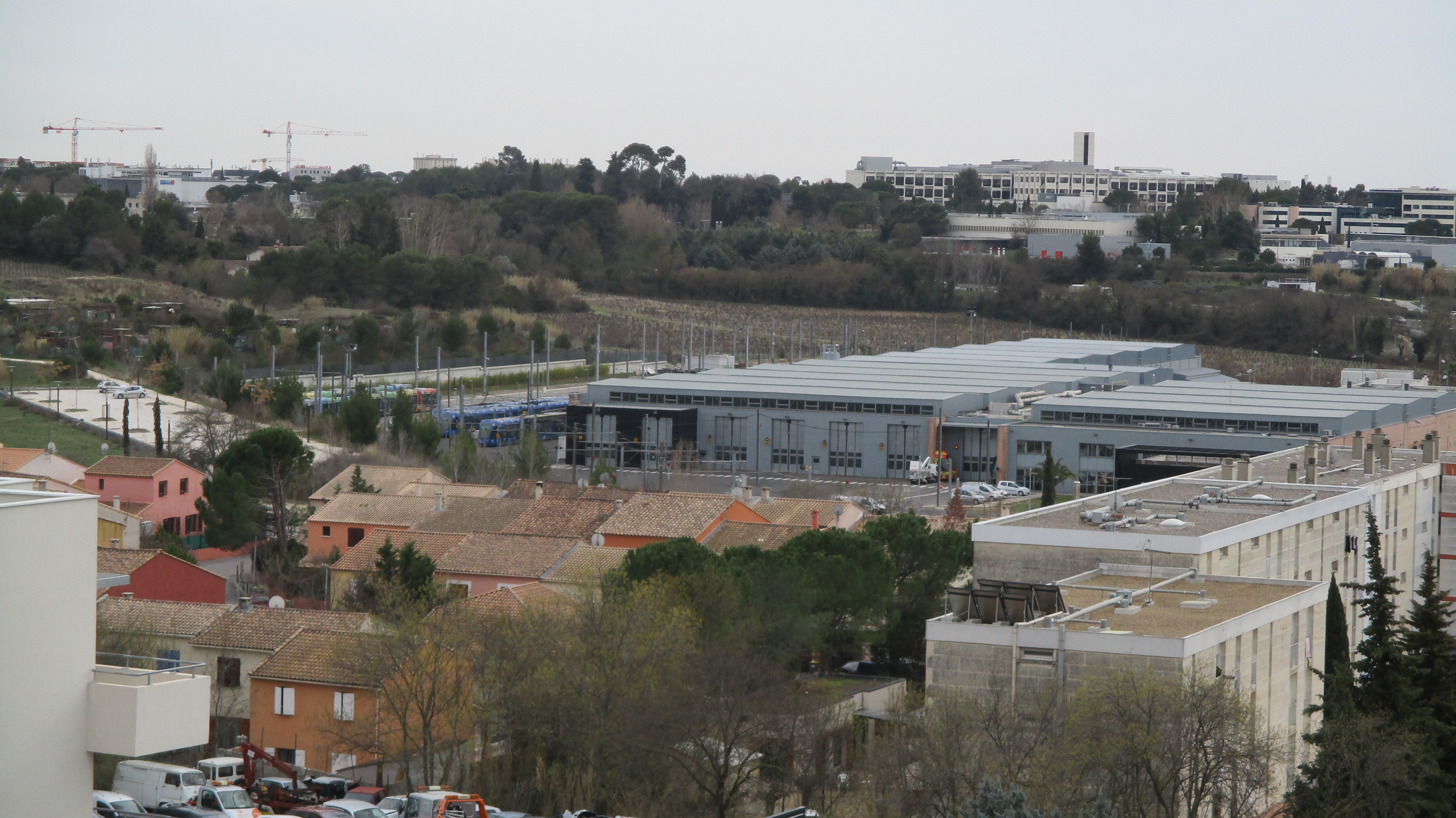 Deposit tramway of the Swallows in the neighborhood of Mosson in Montpellier, France.